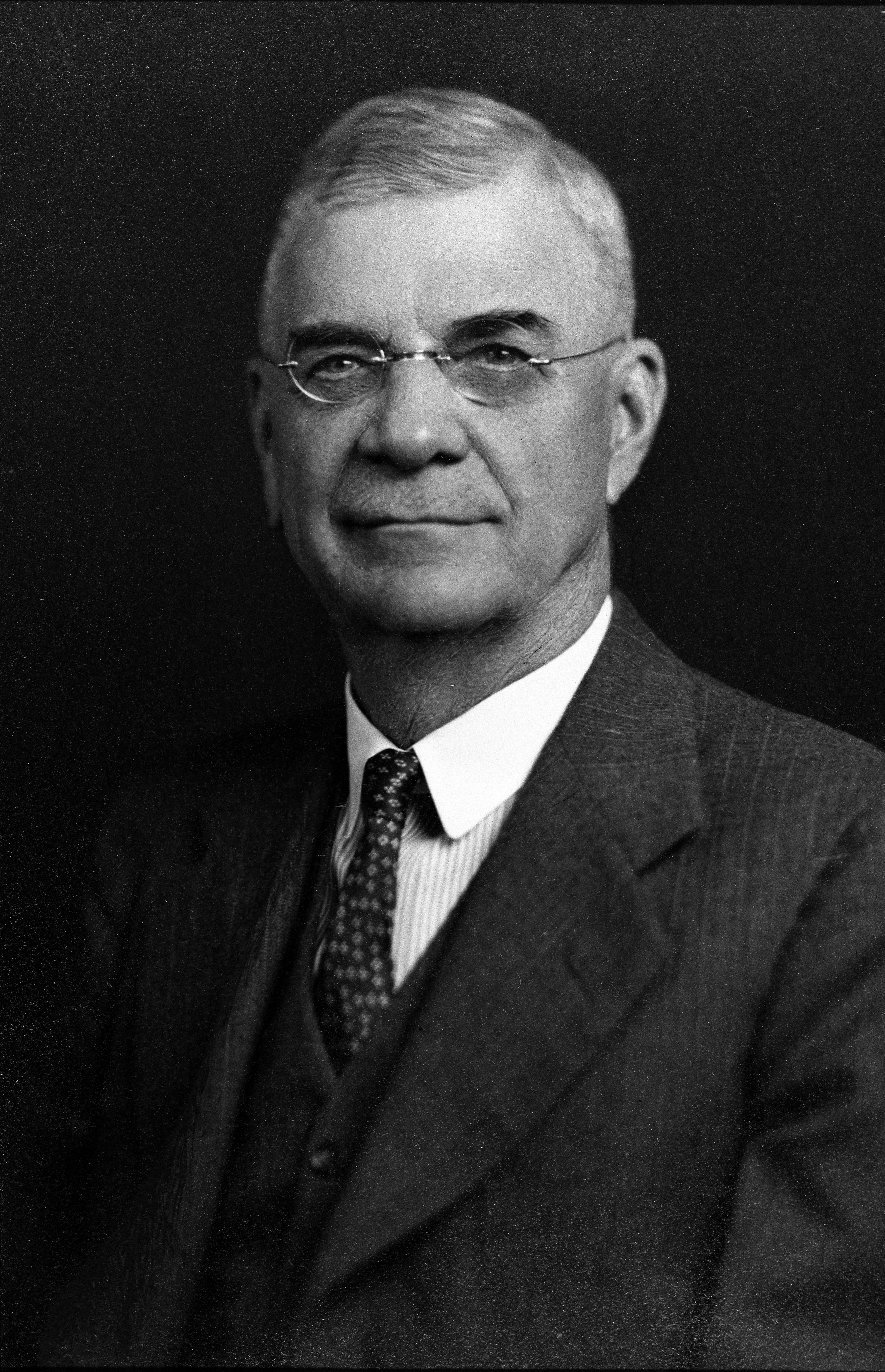 William Bryant Cooper, NC Lieutenant Governor 1921-1925. From the General Negative Collection, State Archives of North Carolina.